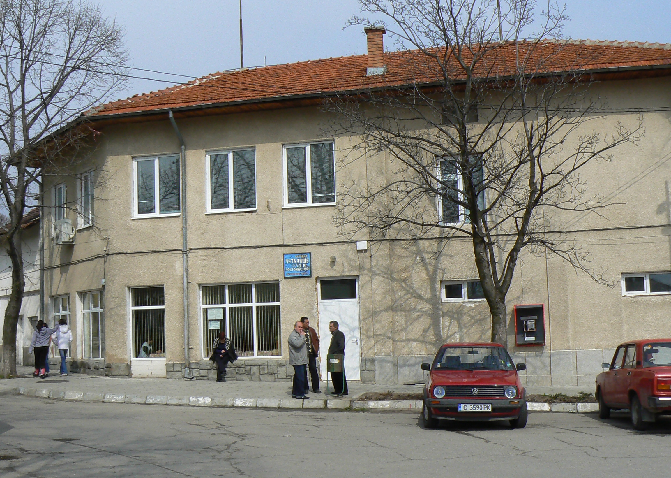 Library / community center in village Chelopech, Bulgaria